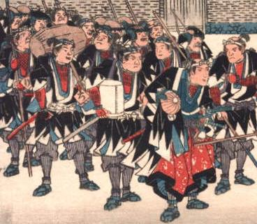 The ronin, on their way back to Sengakuji after the attack on Kira, are halted in the street outside the palace of Matsudaira-no-Kami, Prince of Sendai, by his retainers, to invite them in for rest and refreshment - Chushingura, Act XI, Scene 5 - Hiroshige